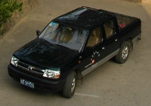 Zhengzhou Chaiyou ZN1021 (aka Dongfeng Rich, a Nissan D22 Pickup with reworked front end) - marketed as 'ZNA Rich' in Colombia